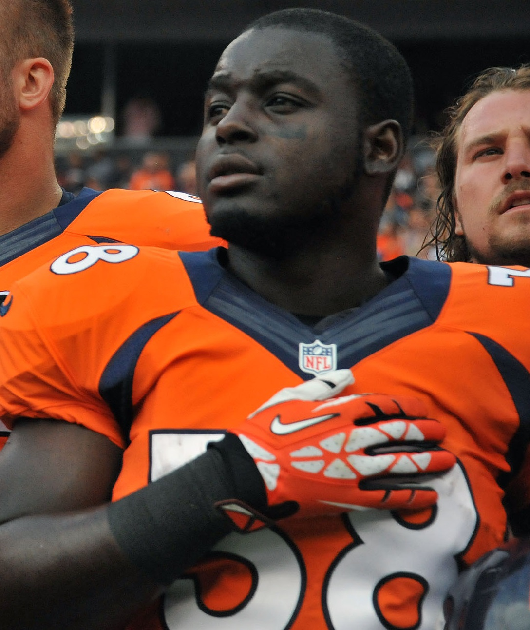 Air National Guard 1st Lt. Benjamin Garland, Denver Broncos Offensive Guard and 140th Wing Public Affairs Officer, stand with Ronnie Hillman (21) and Montee Ball (38) as he listens to the National Anthem at Sports Authority Field at Mile High Stadium, Denver, Colo. Aug 24, 2013. Garland, who originally entered the National Football League in 2010 after graduating from the U.S. Air Force Academy, was on the Bronco’s reserve/military list while fulfilling his active duty obligations in the Air Force. In 2012 Garland joined the Colorado Air National Guard and made the Broncos practice squad as a defensive lineman and is competing this season to make the 53 man final roster. (Air National Guard photo by Tech. Sgt. Wolfram M. Stumpf/RELEASED)